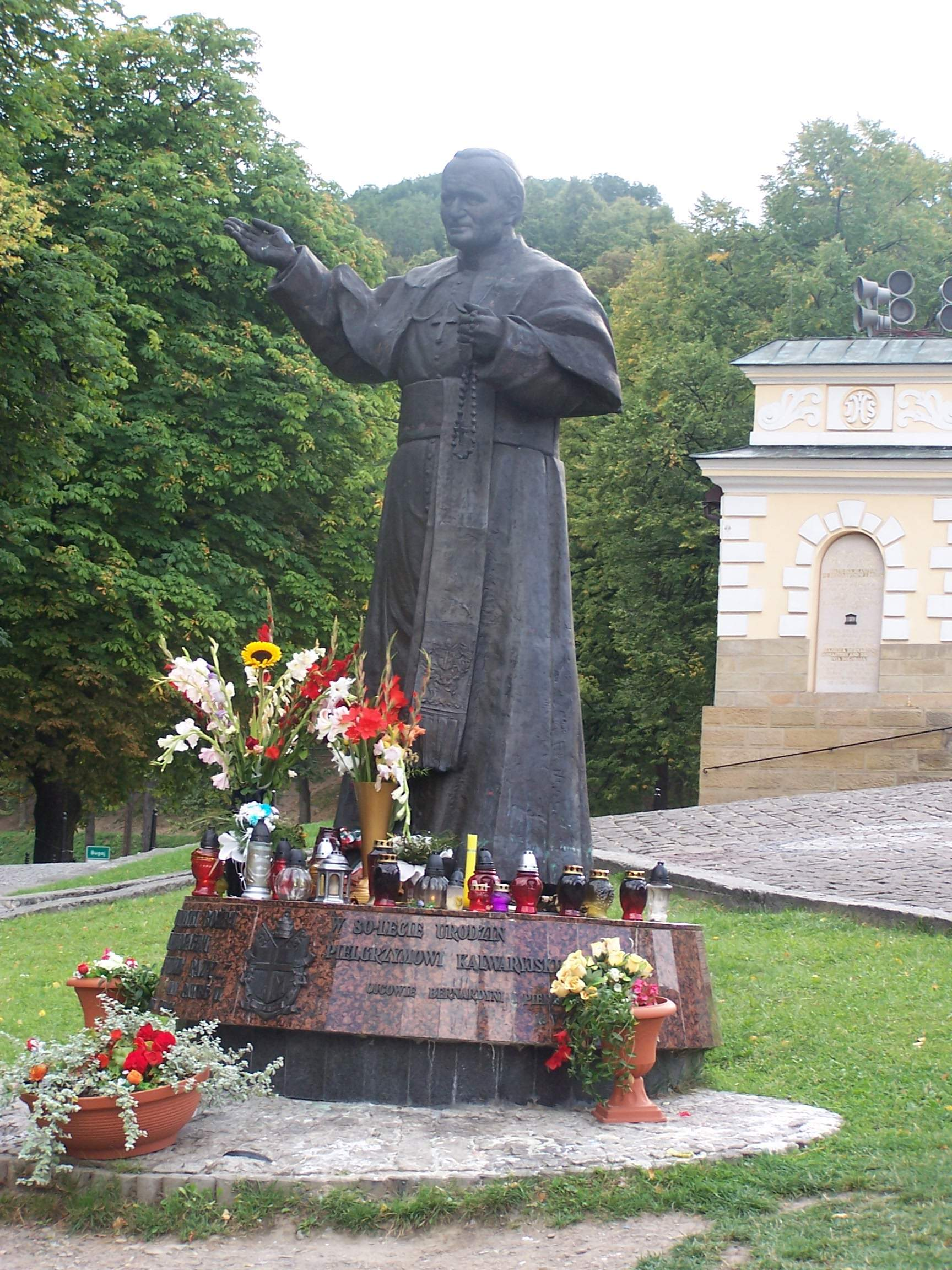 Statue of Pope John Paul II in front of the Kalwaria Zebrzydowska.